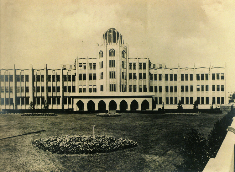 Henry Lester Institute of Technical Education in Shanghai, China